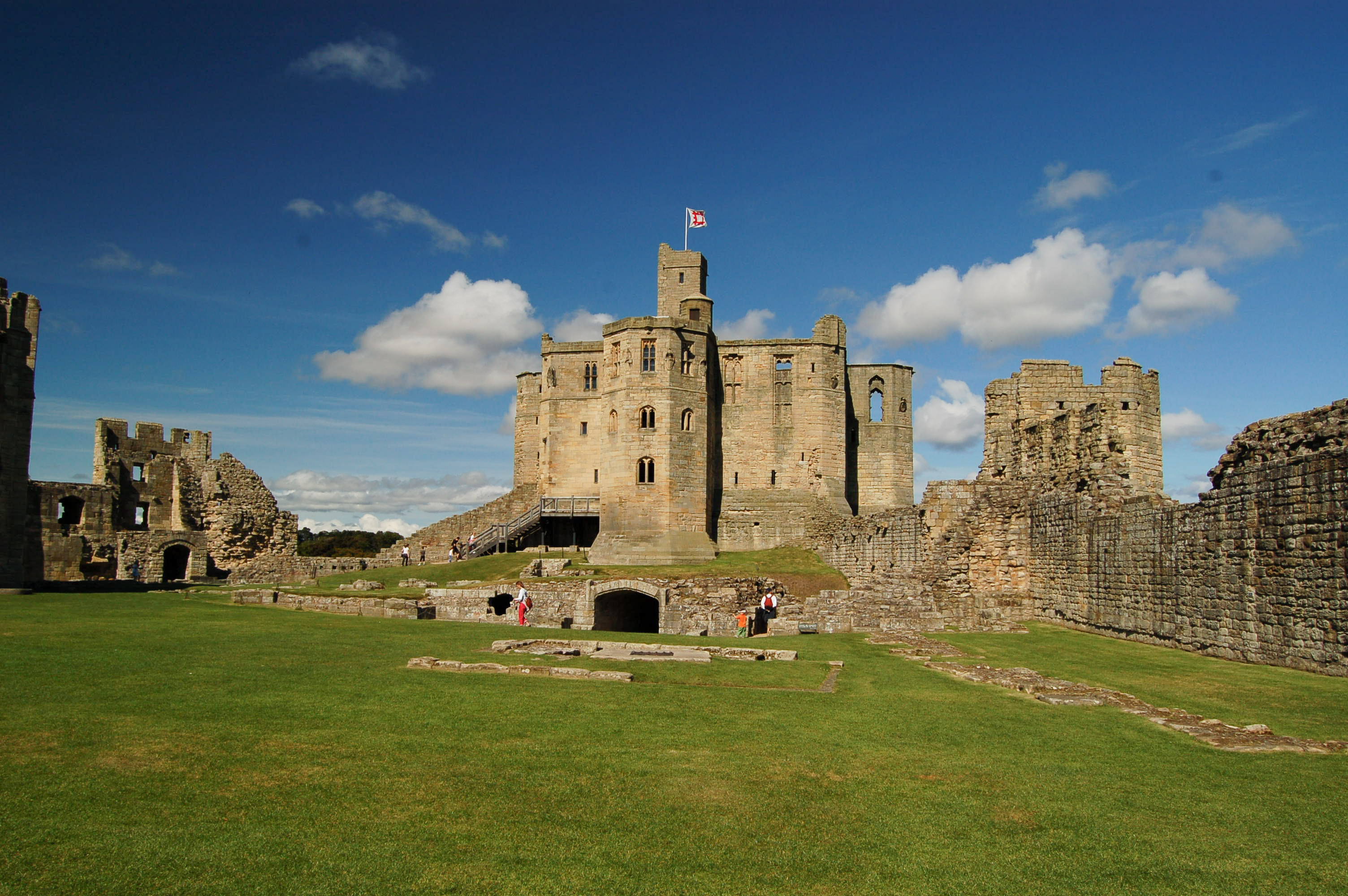 Warkworth Castle, 2007.